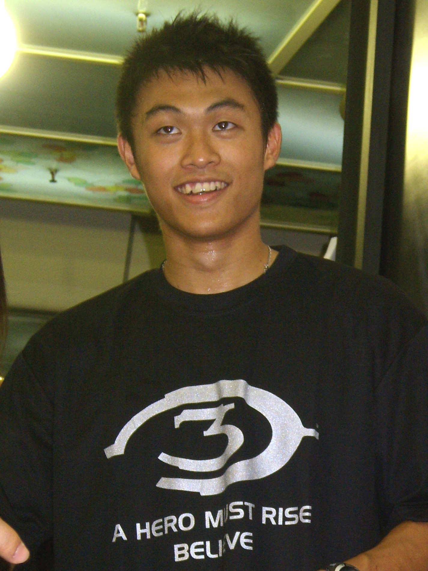 Hsueh-lin "Iverson" Li (SBL Yulon Dinosaur Basketball Team Player) at "Halo 3 Pre-launch Carnival" in Taiwan.